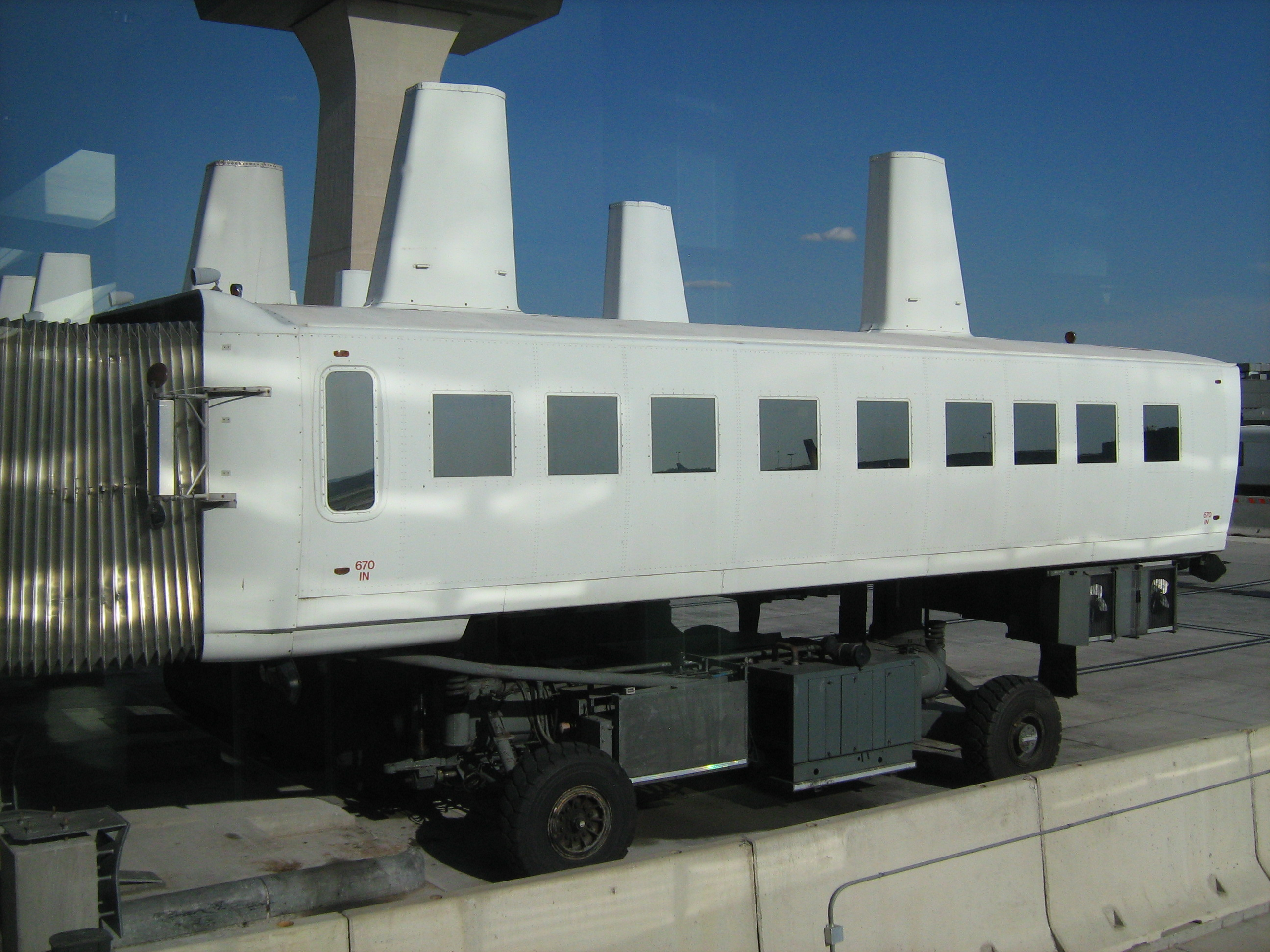 Plane Mates at Washington Dulles International Airport, "docked" at the main terminal building. In the background is part of the tower the original airport control tower.